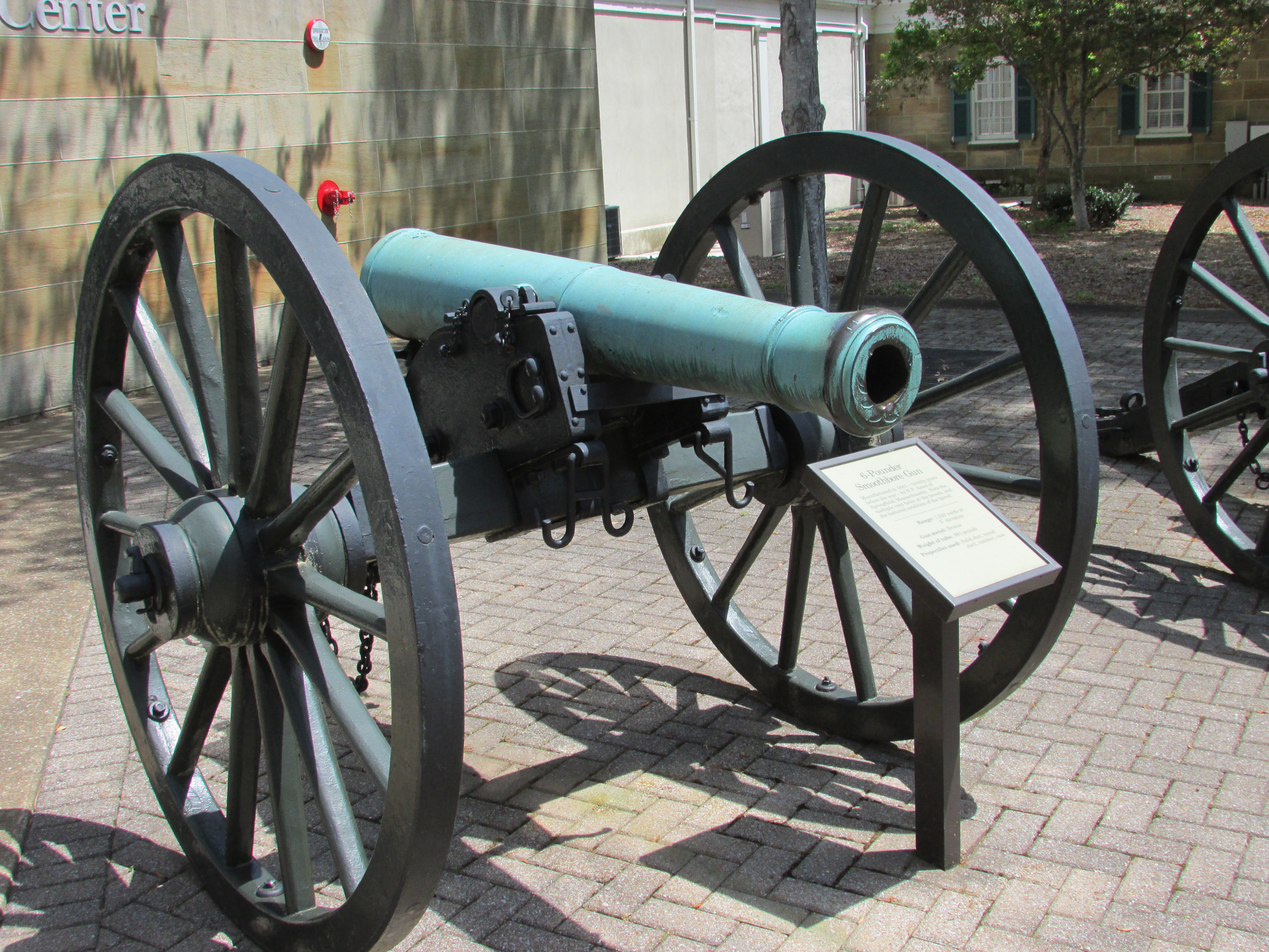 Model 1841 6-pounder smoothbore gun on display outside the Chickamauga Battlefield Visitors Center.